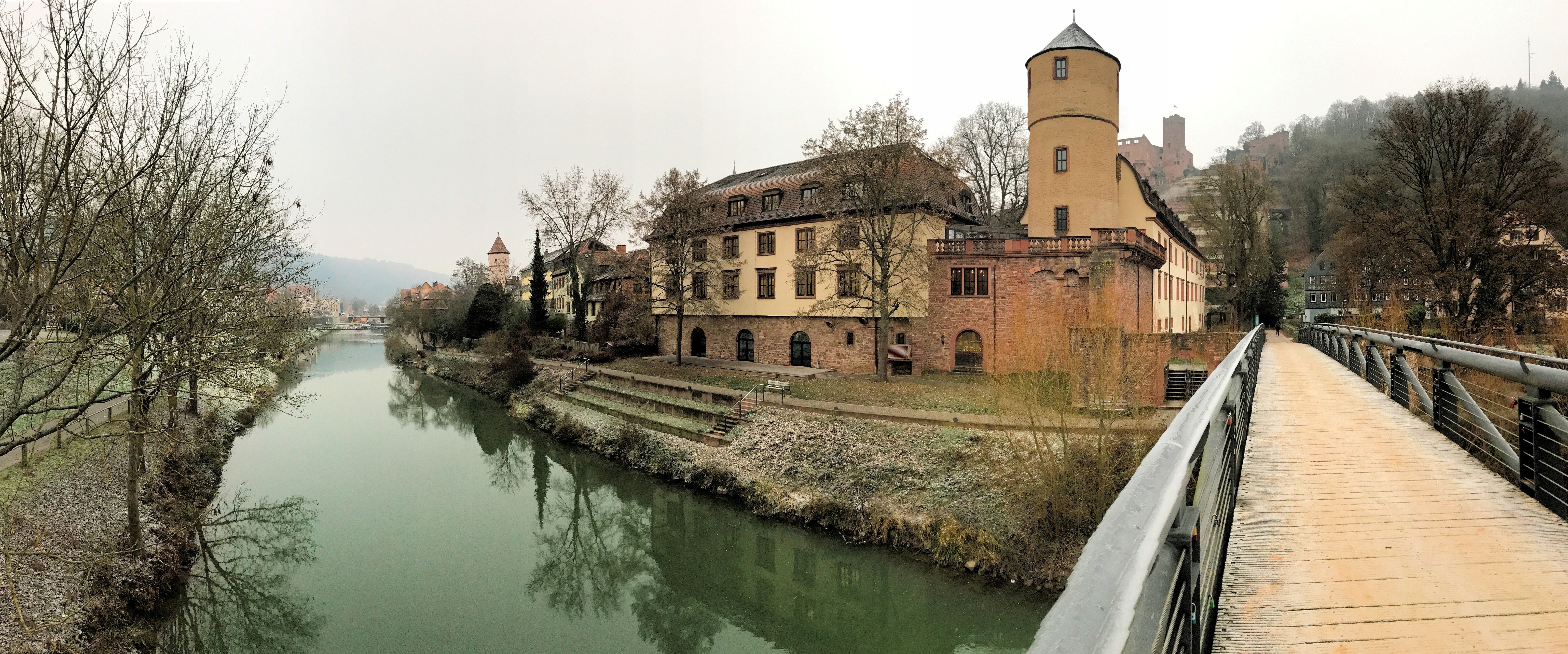 Former princely court yard, Mühlenstraße 26, Wertheim, Germany